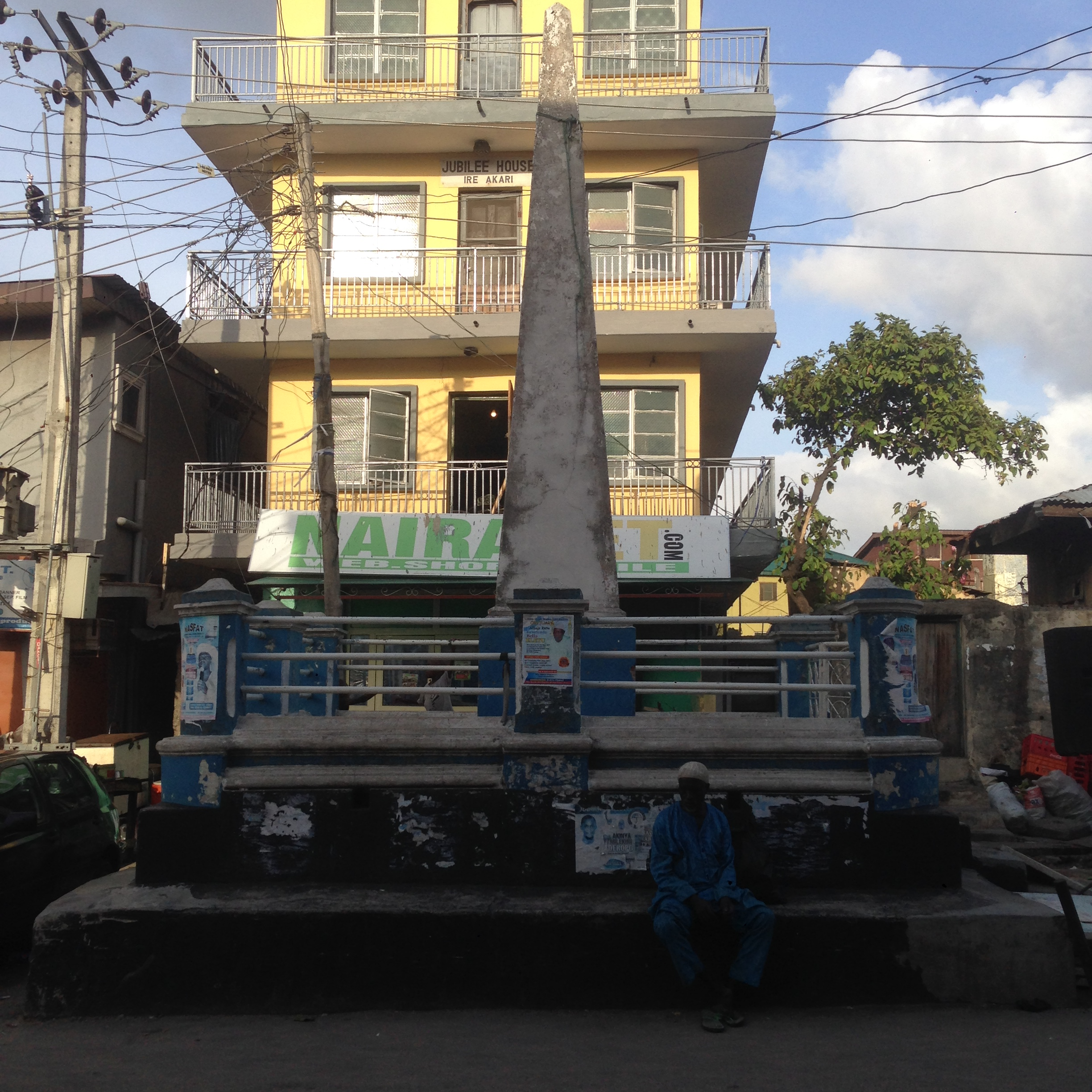 Side view of Tapa monument